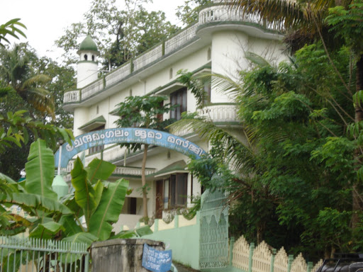 It is located on the banks river periyar .